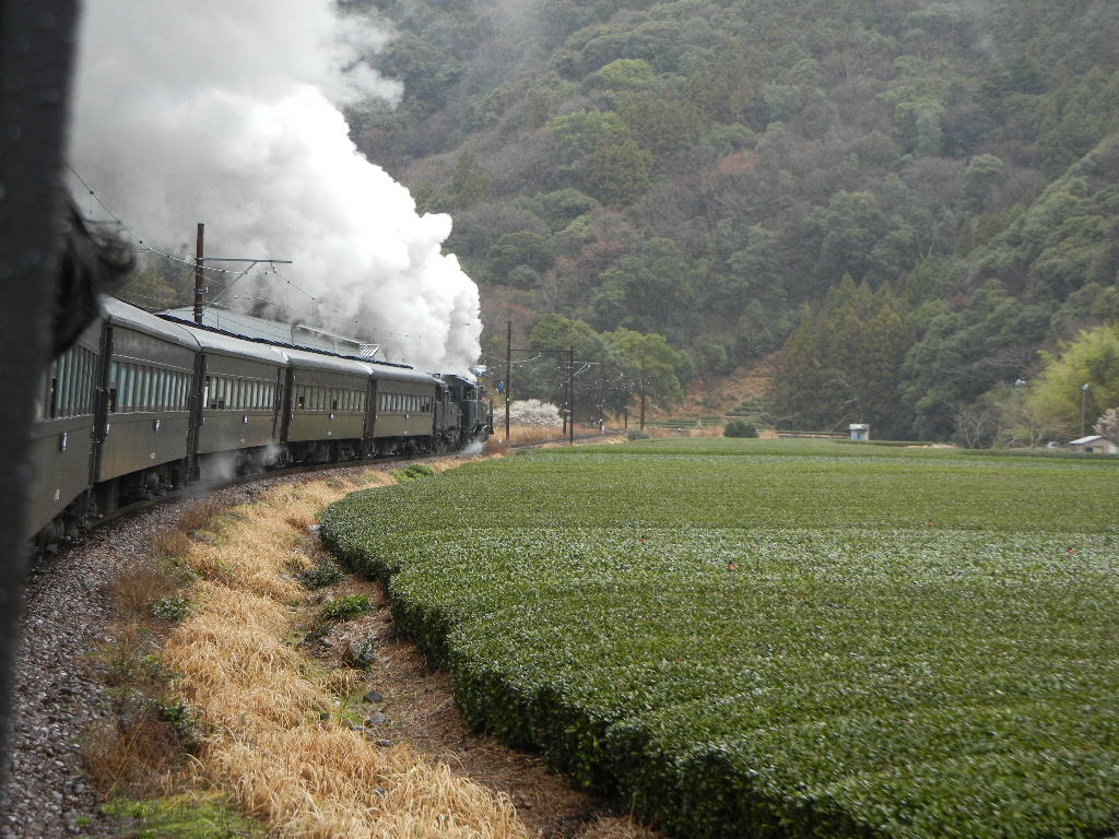 SL_Kananeji_Oigawa_Railway. 茶畑の中を走行する大井川鐵道のSLかわね路号, Shimada.